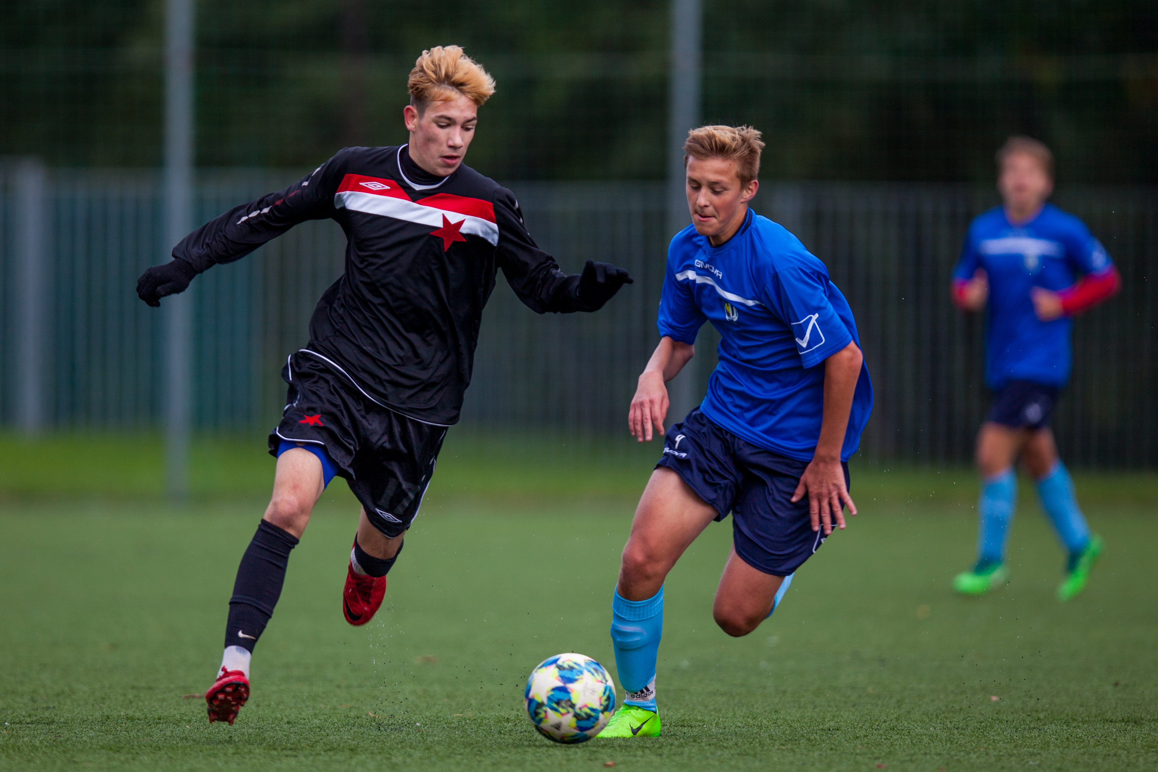 Moravian-Silesian Region youths league between FK Slavia Orlová and TJ Bystřice (3:0); Orlová, Karviná District, Moravian-Silesian Region, Czechia